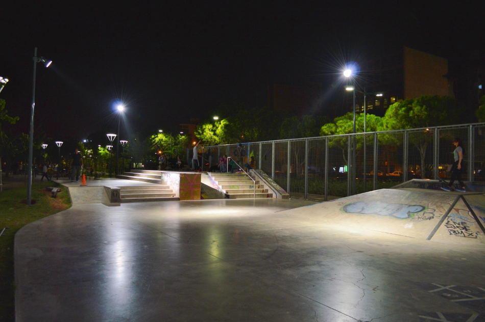 Limassol new seaside skateboard night Limassol Republic of Cyprus